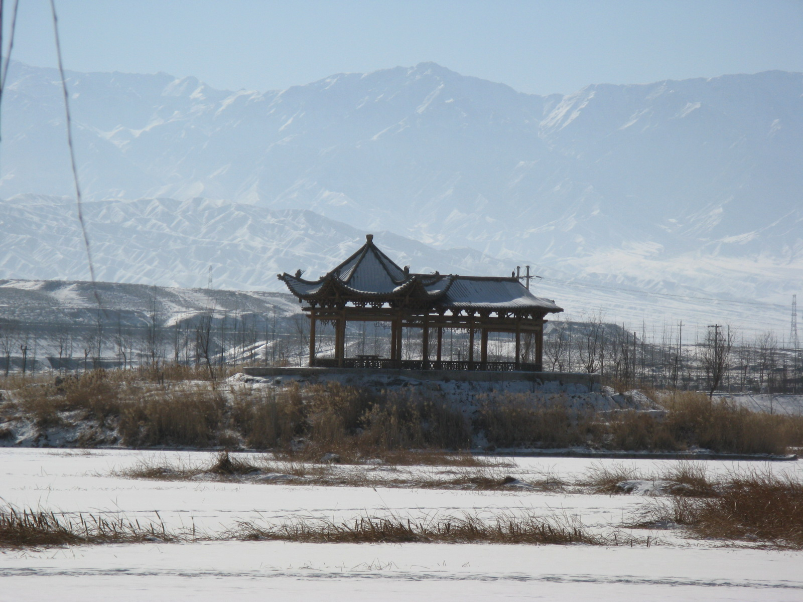 Qilian Mountain，photo in City of Jiayuguan